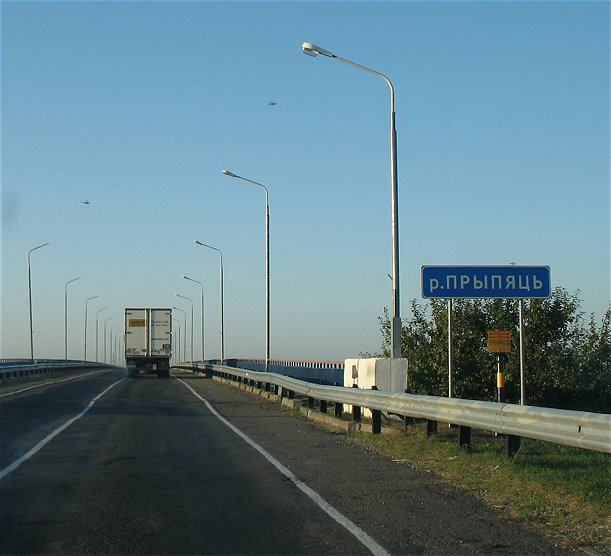 Bridge over the river Pripyats. This bridge is on the regional road P88 in Zhytkavichy, Gomel region.